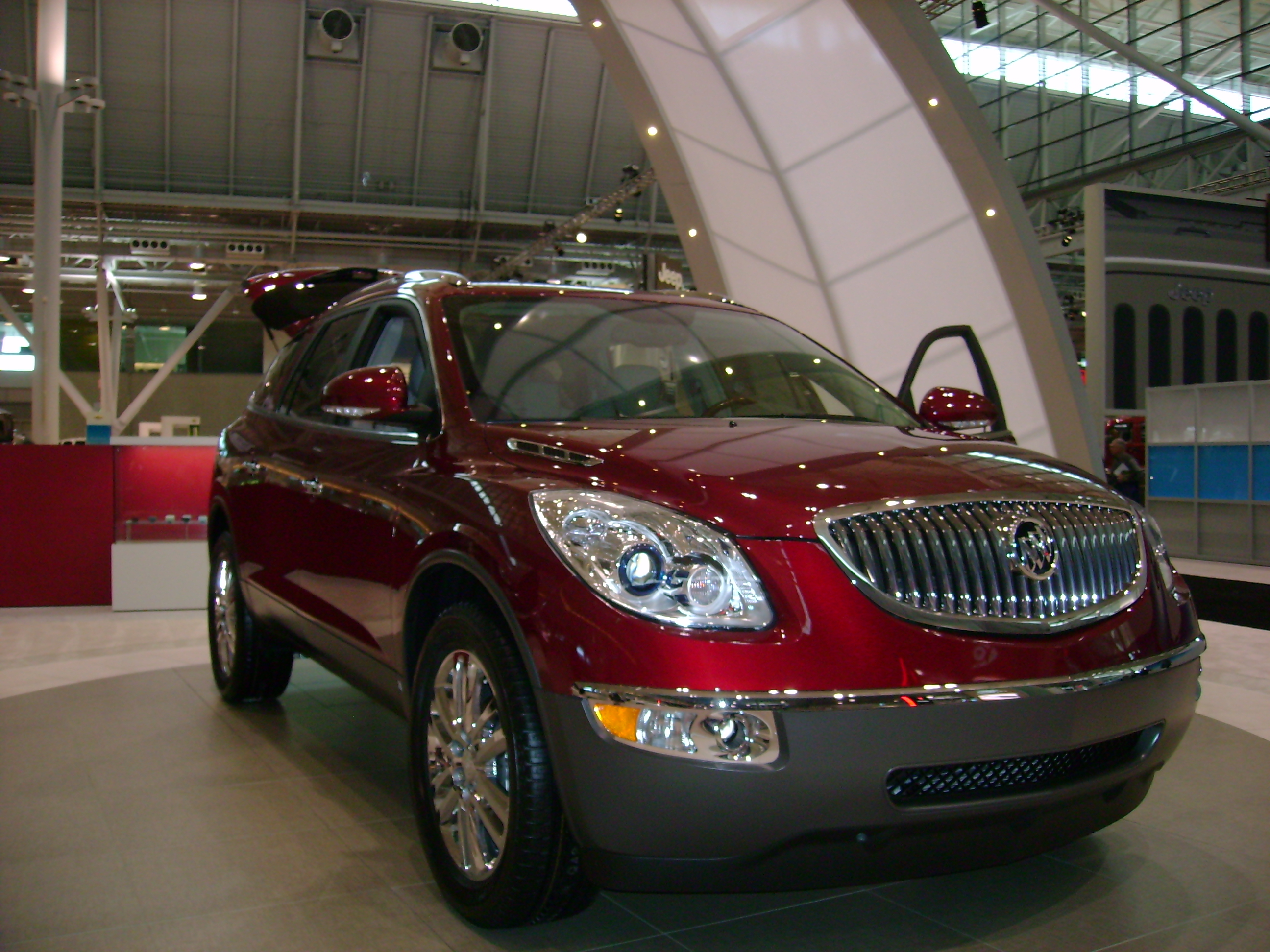 2008 Buick Enclave photographed in USA.